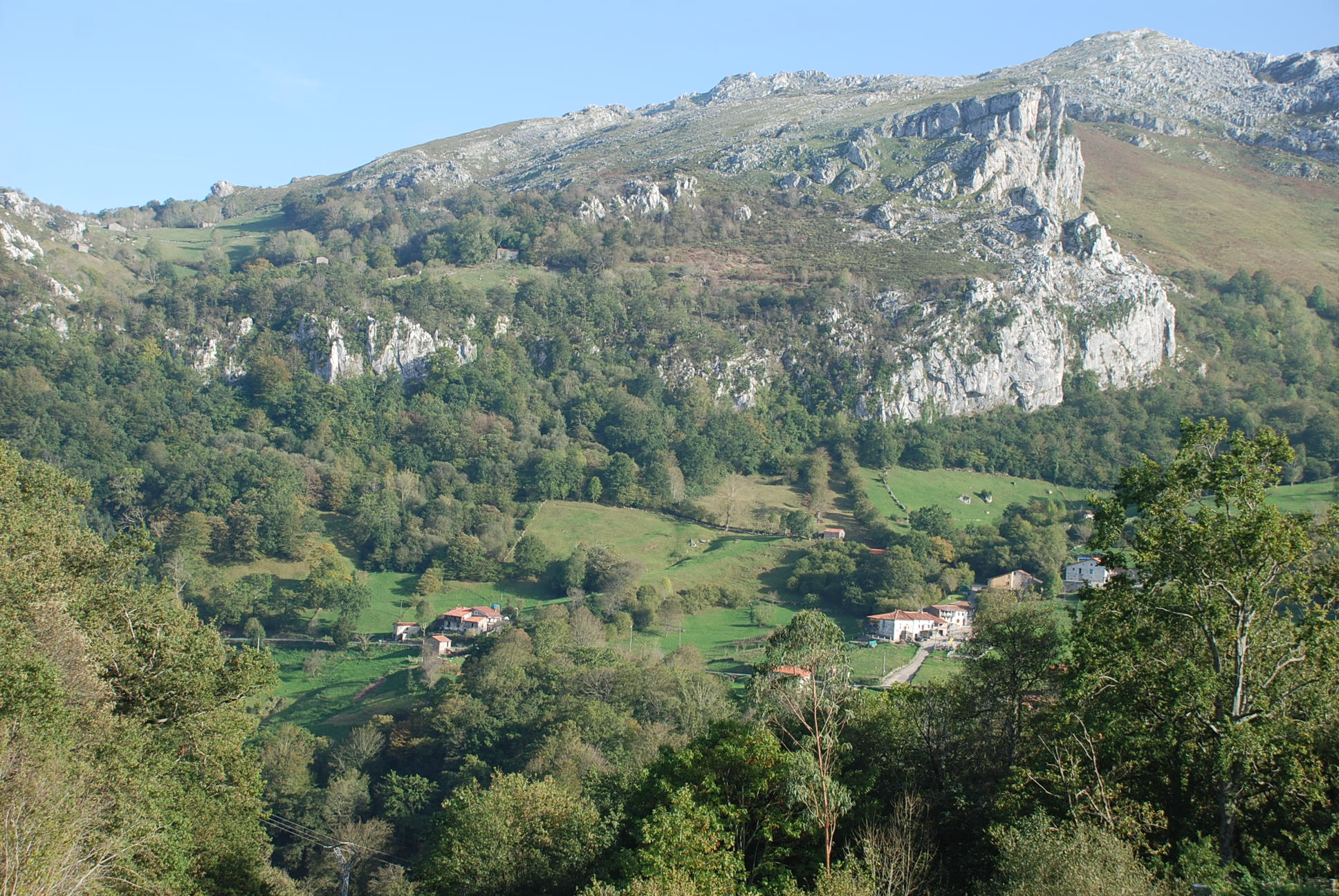 View of Linto from La Cácoba, (Miera, Cantabria)